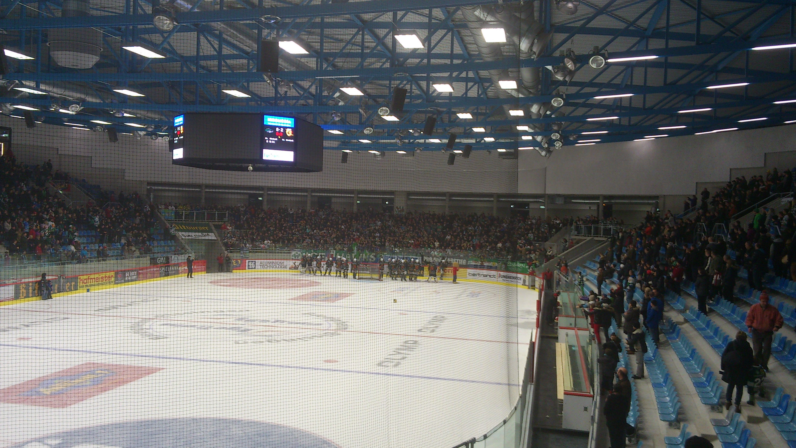 Players of Bietigheim Steelers jubilates with fans after victory against ESV Kaufbeuren on December 26 2012 inEgeTrans Arena